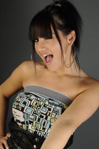 Monice